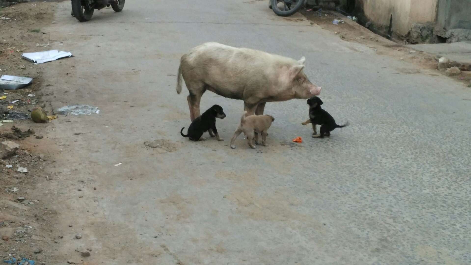 love between animals